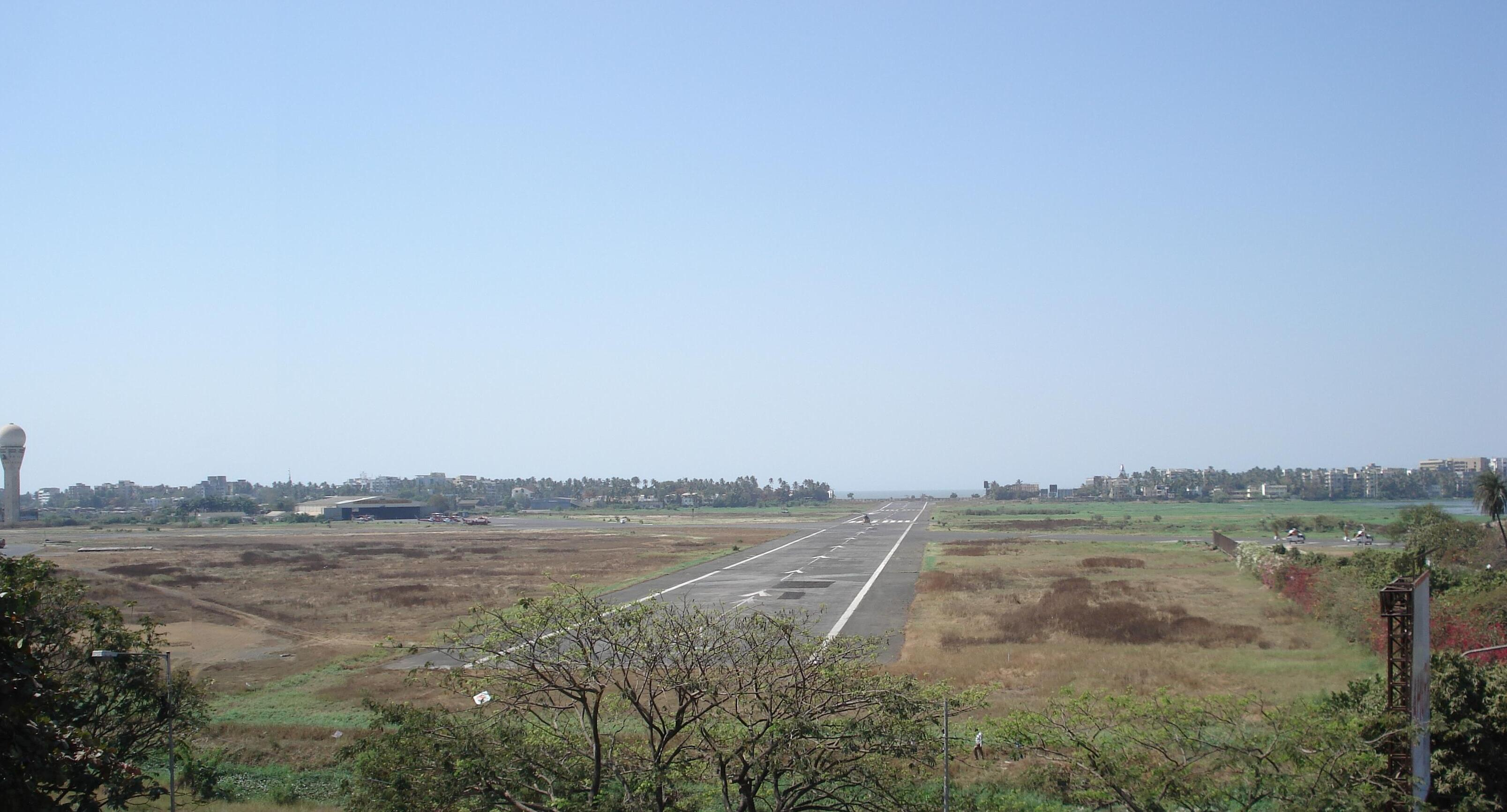 Runway 08/26. Viewed as from Nanavati Hospital end; Juhu beach Arabian Sea are in the distance.